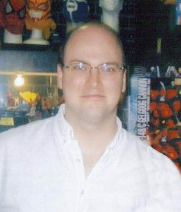 Alex Ross at a comic store, in 2003.